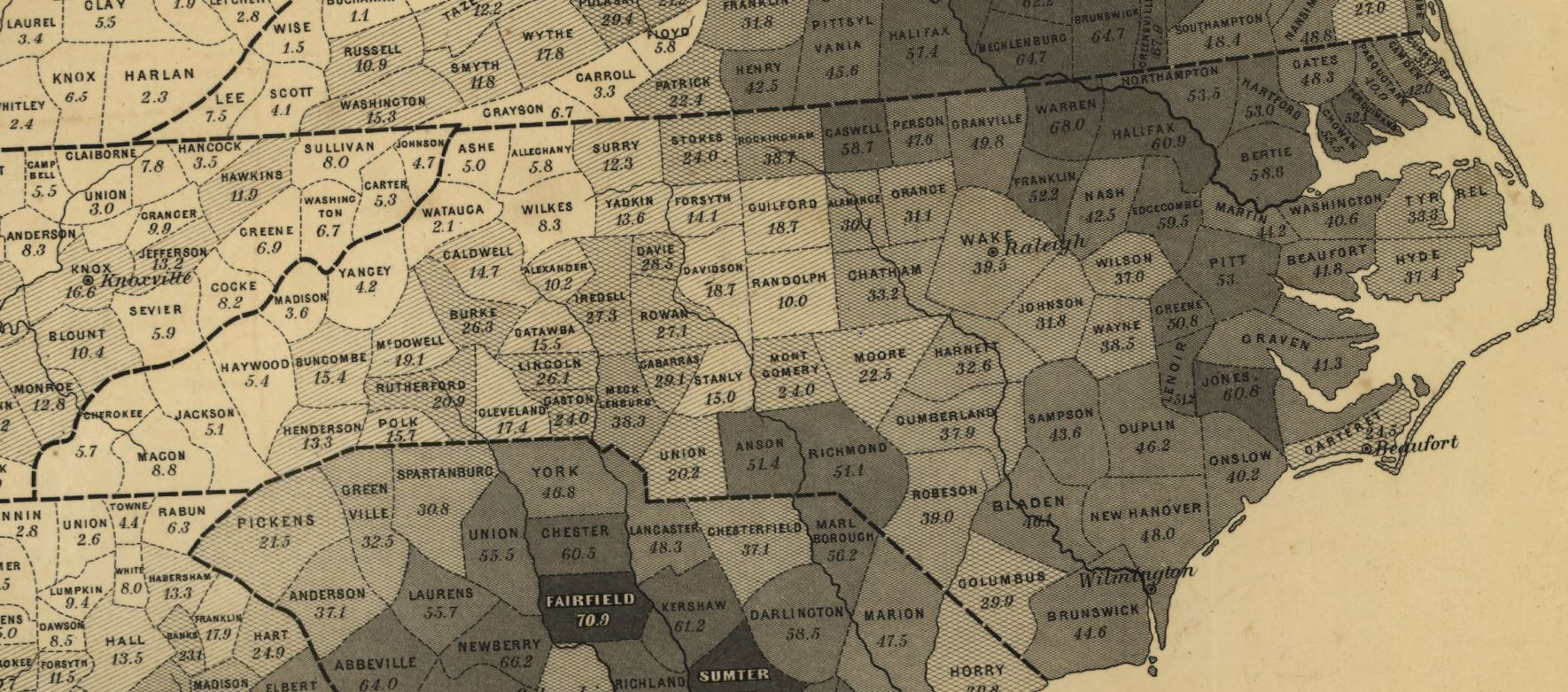 Map Showing the Distribution of the Slave Population of the North Carolina counties Compiled from the Census of 1860. Sold for the benefit of the Sick and Wounded Soldiers of the U. S. Army. A map issued by the US Coast Guard showing the percentage of slaves in the population in each county in the slave-holding states of the United States in 1860